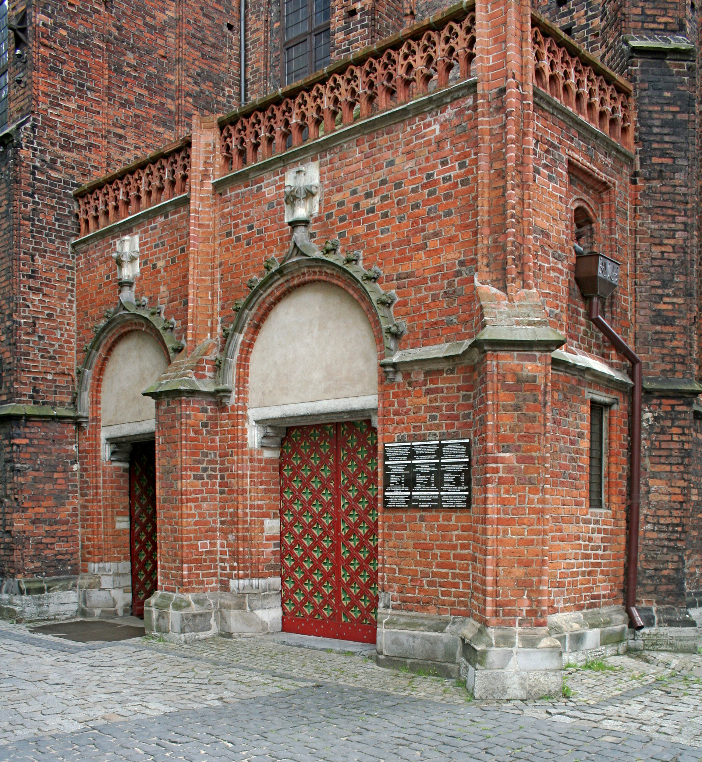 Toruń, SS. Johns' Cathedral, northern porch